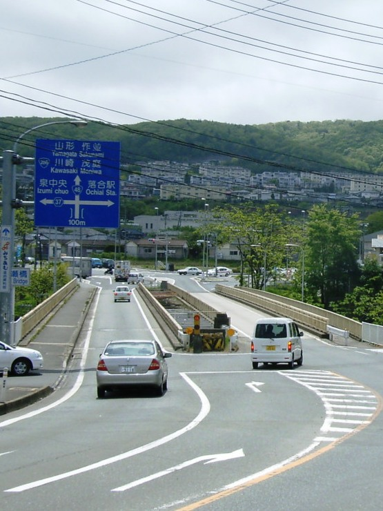 Oise Bridge of the Hirose River. Sendai, Miyagi prefecture, Japan.